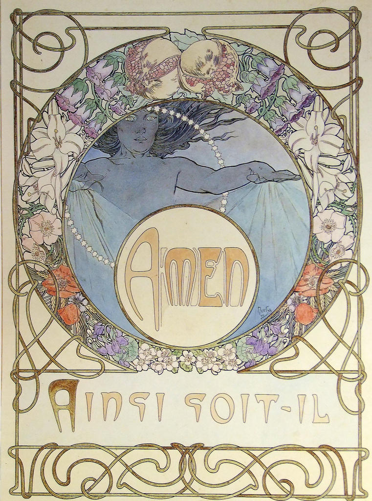 An illustrated page from Le Pater by Mucha